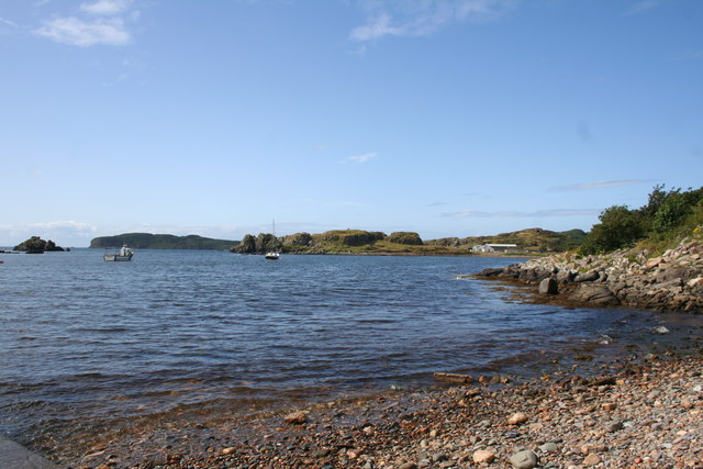 East Lagavulin Bay The east side of Lagavulin Bay from the distillery. The headland is shown to have a fort on it... next time if I can spare the time. An unfortunately oft heard refrain!